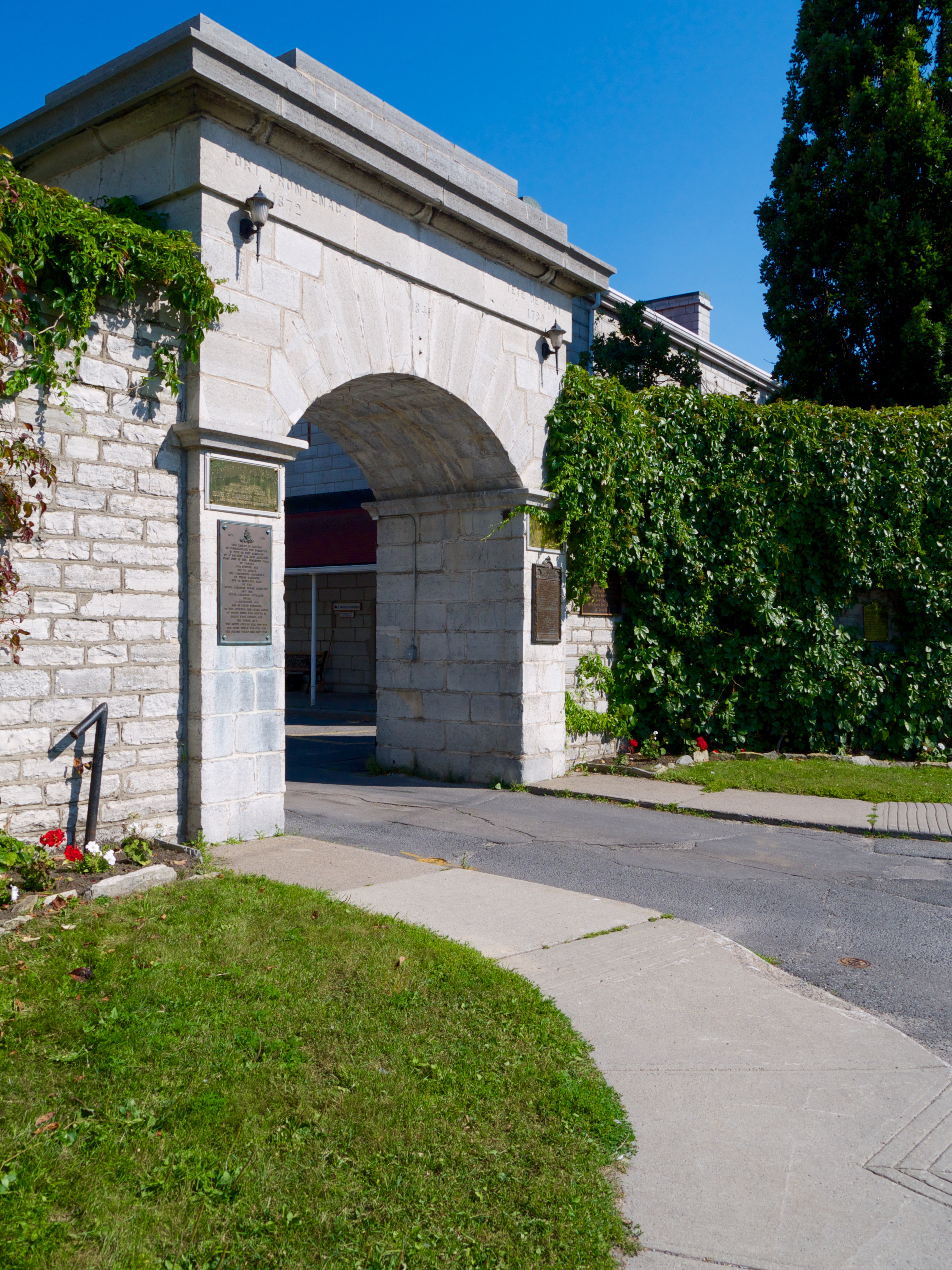 Fort Frontenac gate in Kingston, Ontario.